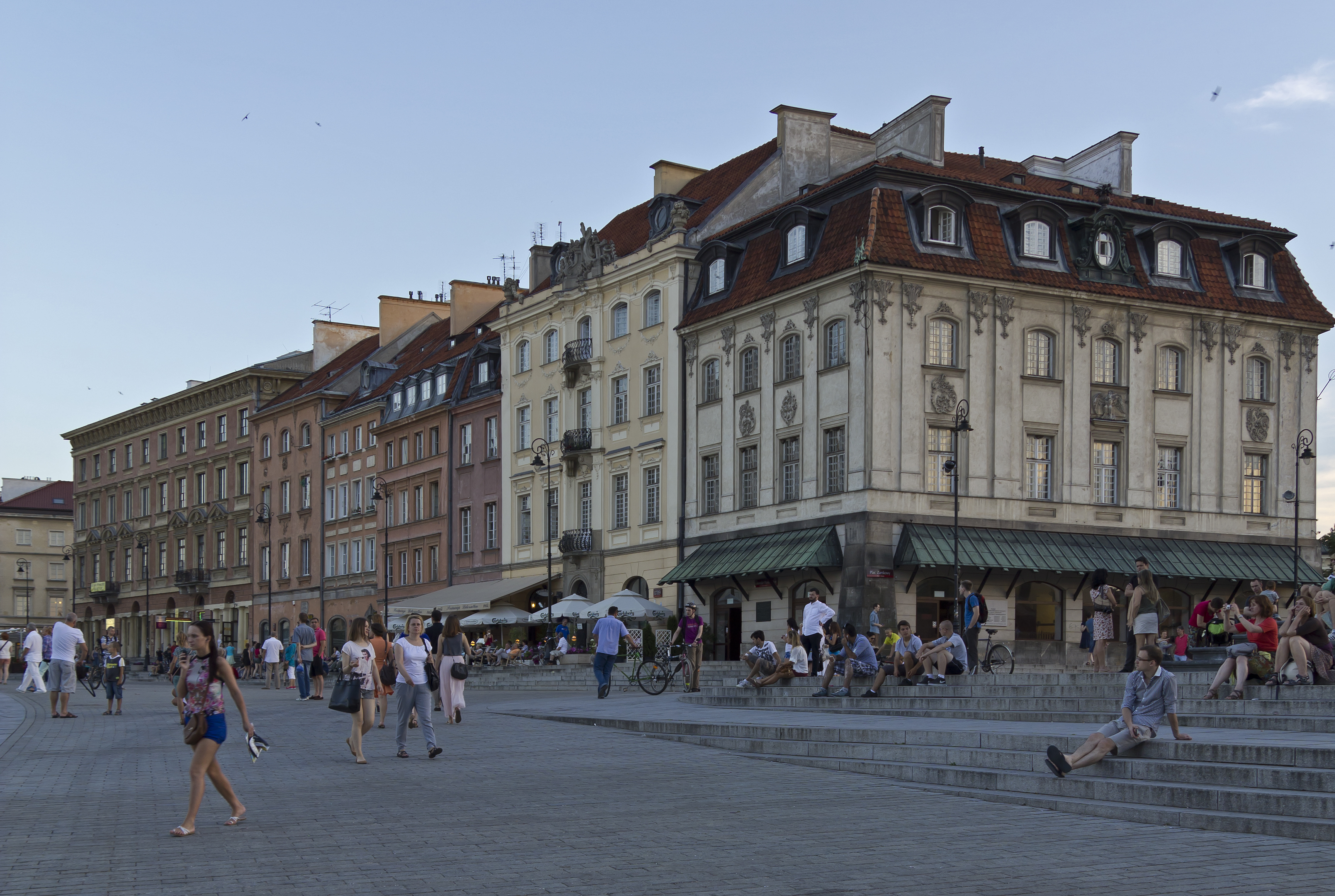 Castle Square in the Old Town (Stare Miasto) in Warsaw (Poland)